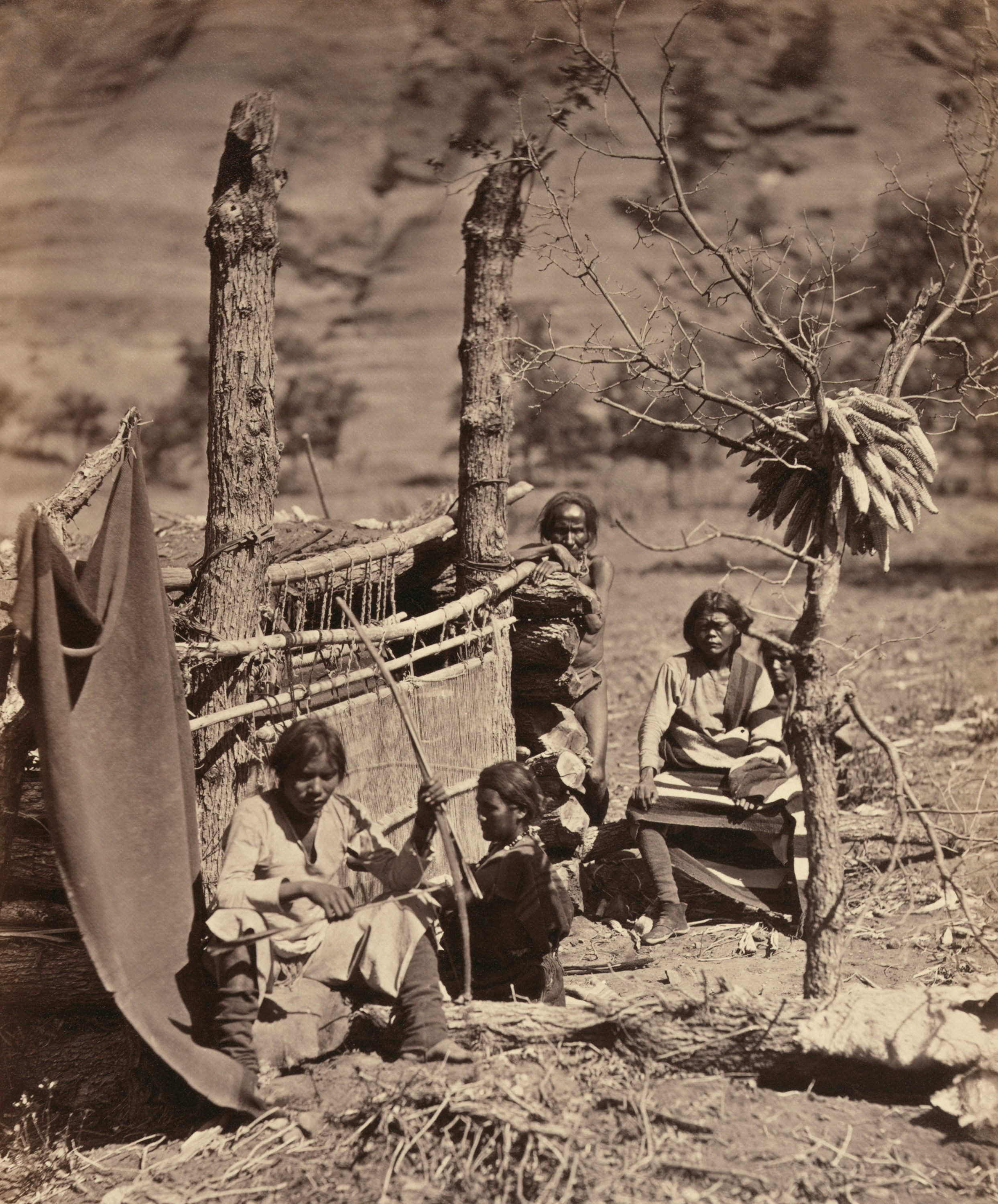 Vintage albumen print. Original caption "Aboriginal life among the Navajoe Indians. Near old Fort Defiance, N.M. / T. H."